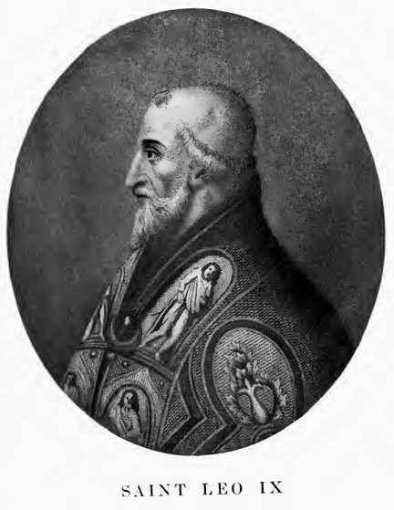 This illustration is from The Lives and Times of the Popes by Chevalier Artaud de Montor, New York: The Catholic Publication Society of America, 1911. It was originally published in 1842.